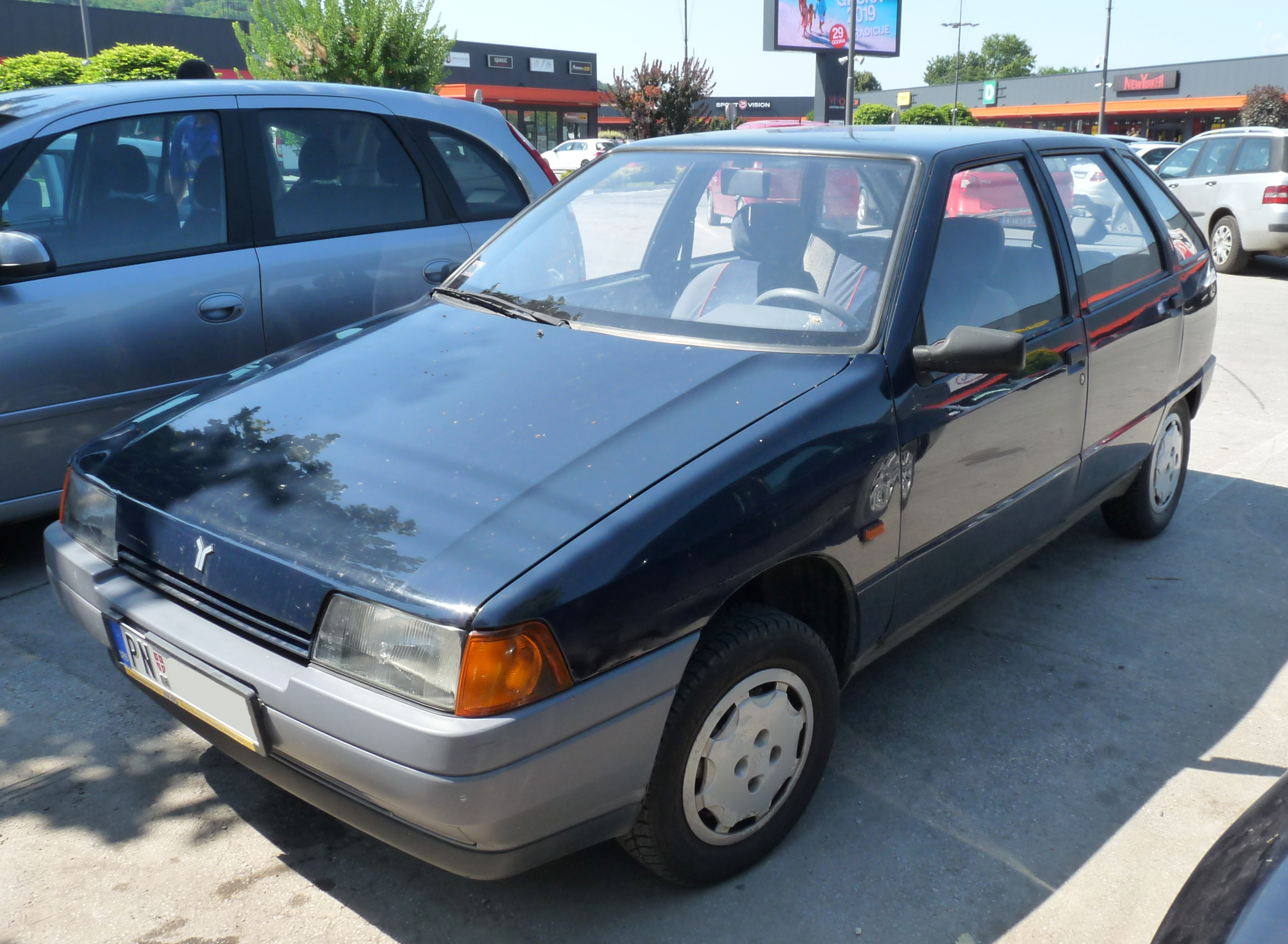 1.3 EFI 68 HP